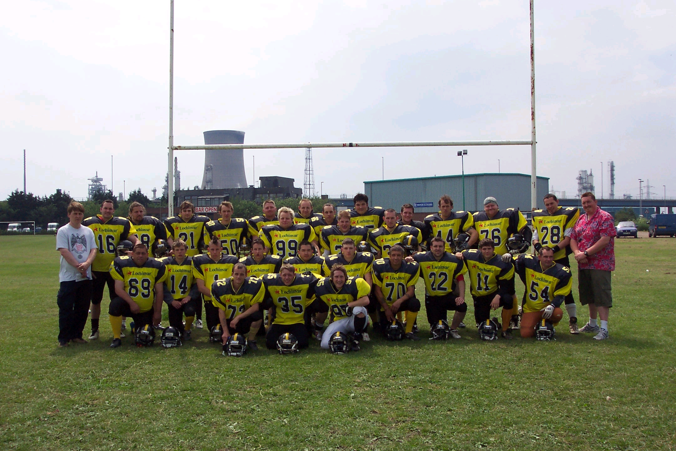 Team photo of the Hull Hornets.